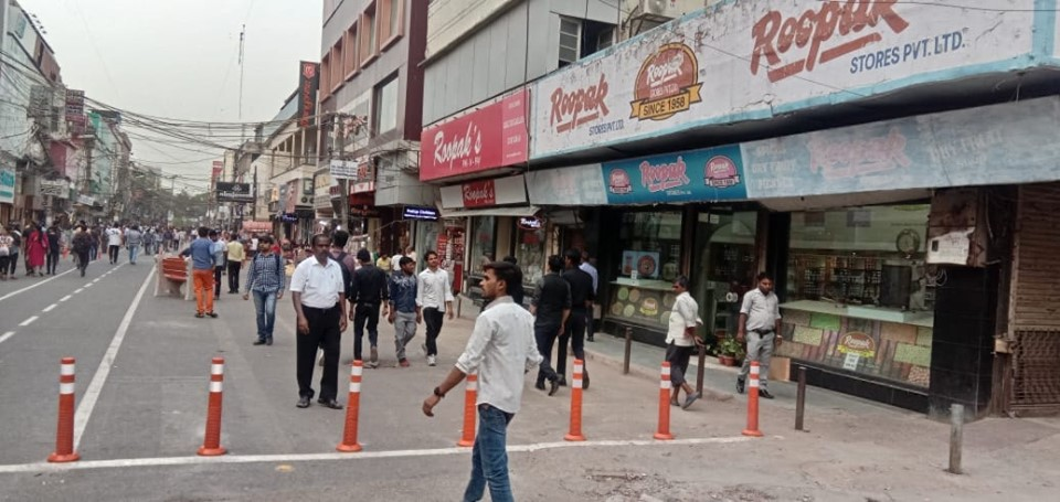 Karol Bagh Market - Revitalized 2019